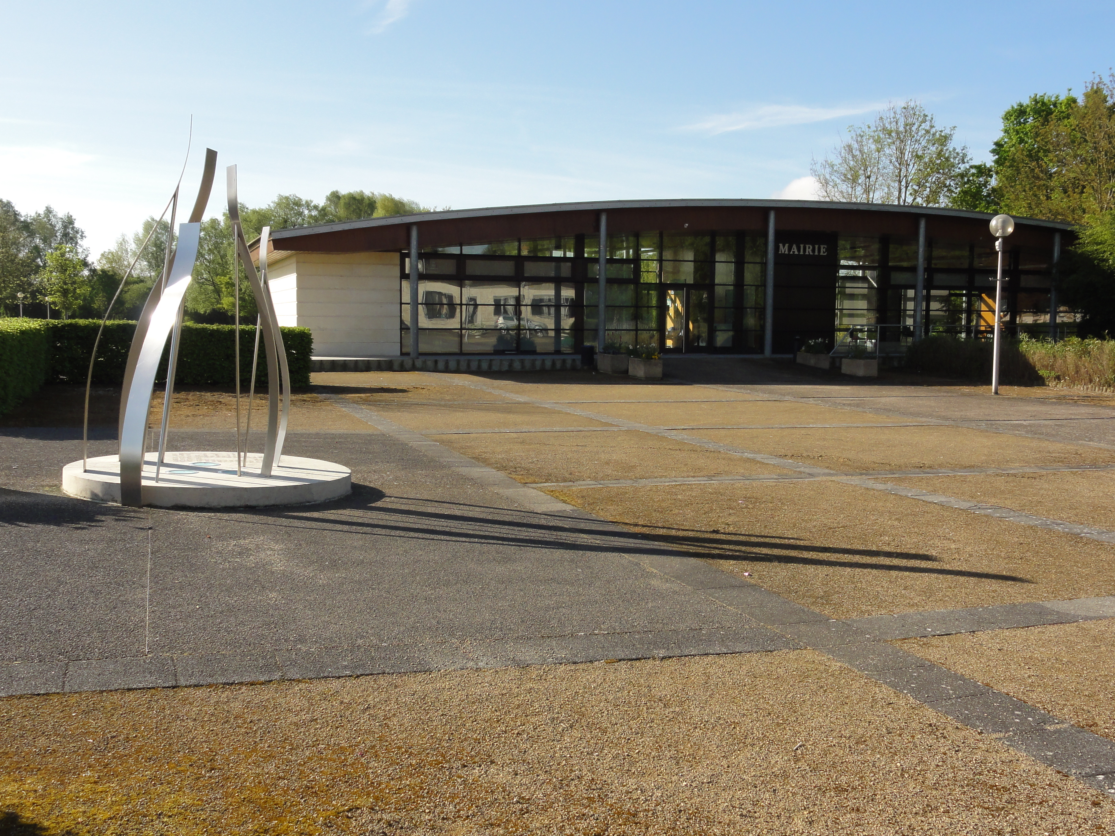 Chambry (Aisne) mairie